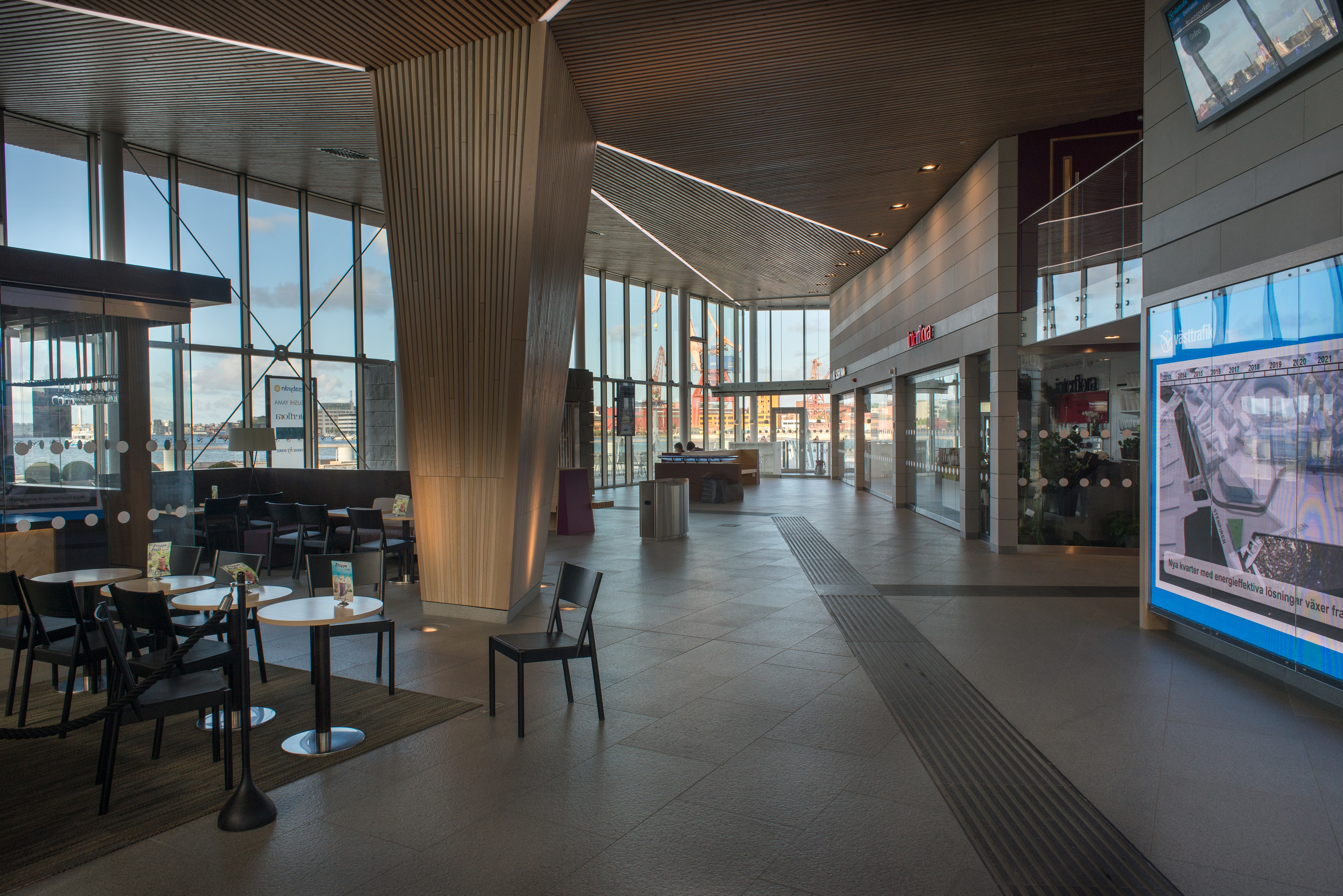 Stenpiren travel centre, Gothenburg (Sweden).